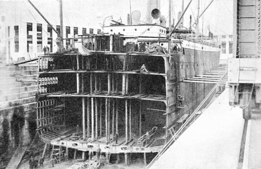 The liner Suevic undergoing repairs in dry dock at Southampton, having been split into two, following her running aground. She is awaiting the arrival of a new bow section.